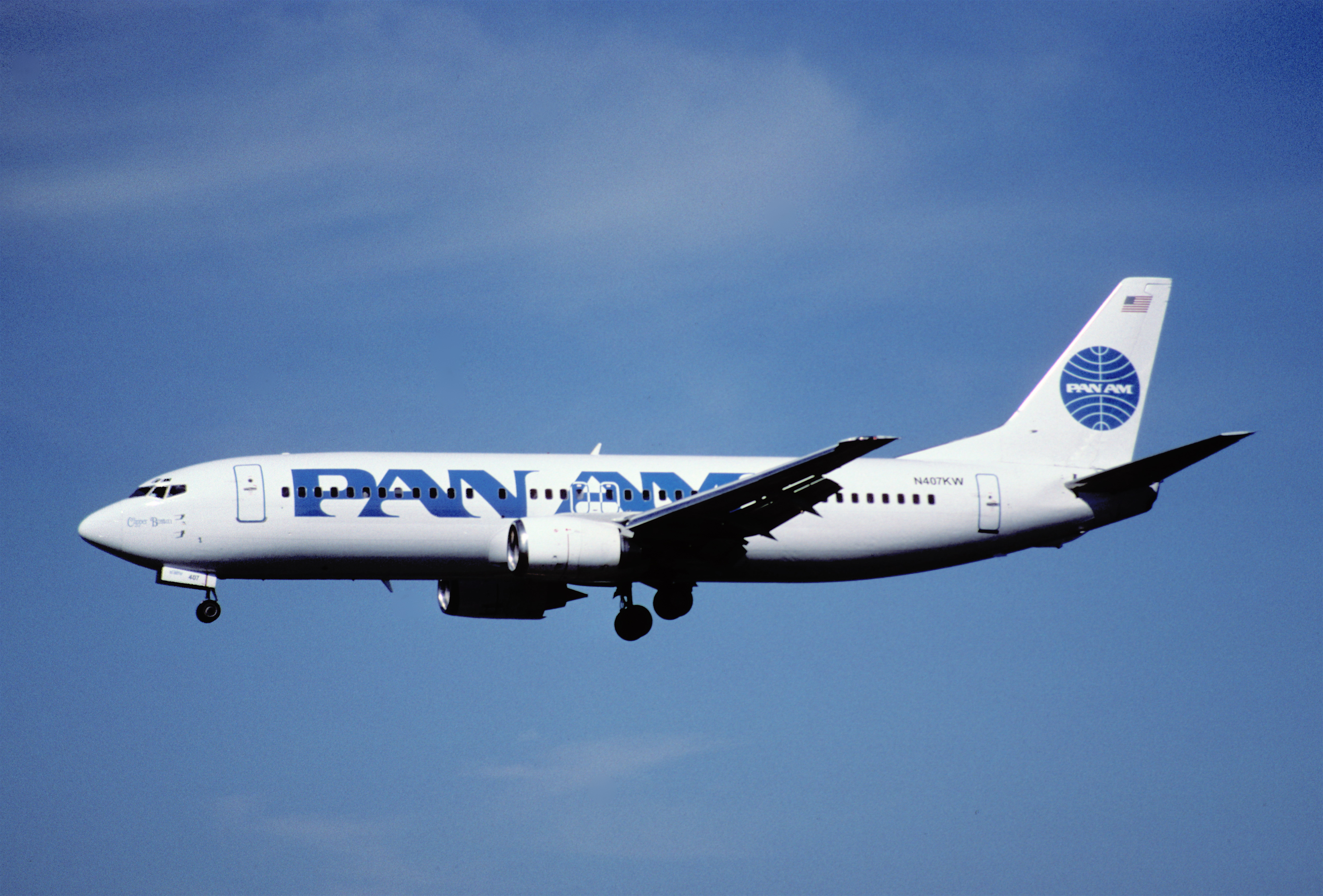 First flight: February 23, 1990... 10/03/1990 Malaysia Airlines 9M-MJA 08/02/1994 Braathens LN-BUB 28/11/1996 Carnival Airlines N407KW 01/10/1997 Pan Am N407KW 03/06/1998 Olympic Airways SX-BKH 12/12/2003 Olympic Airlines SX-BKH ceased operations September 29, 2009